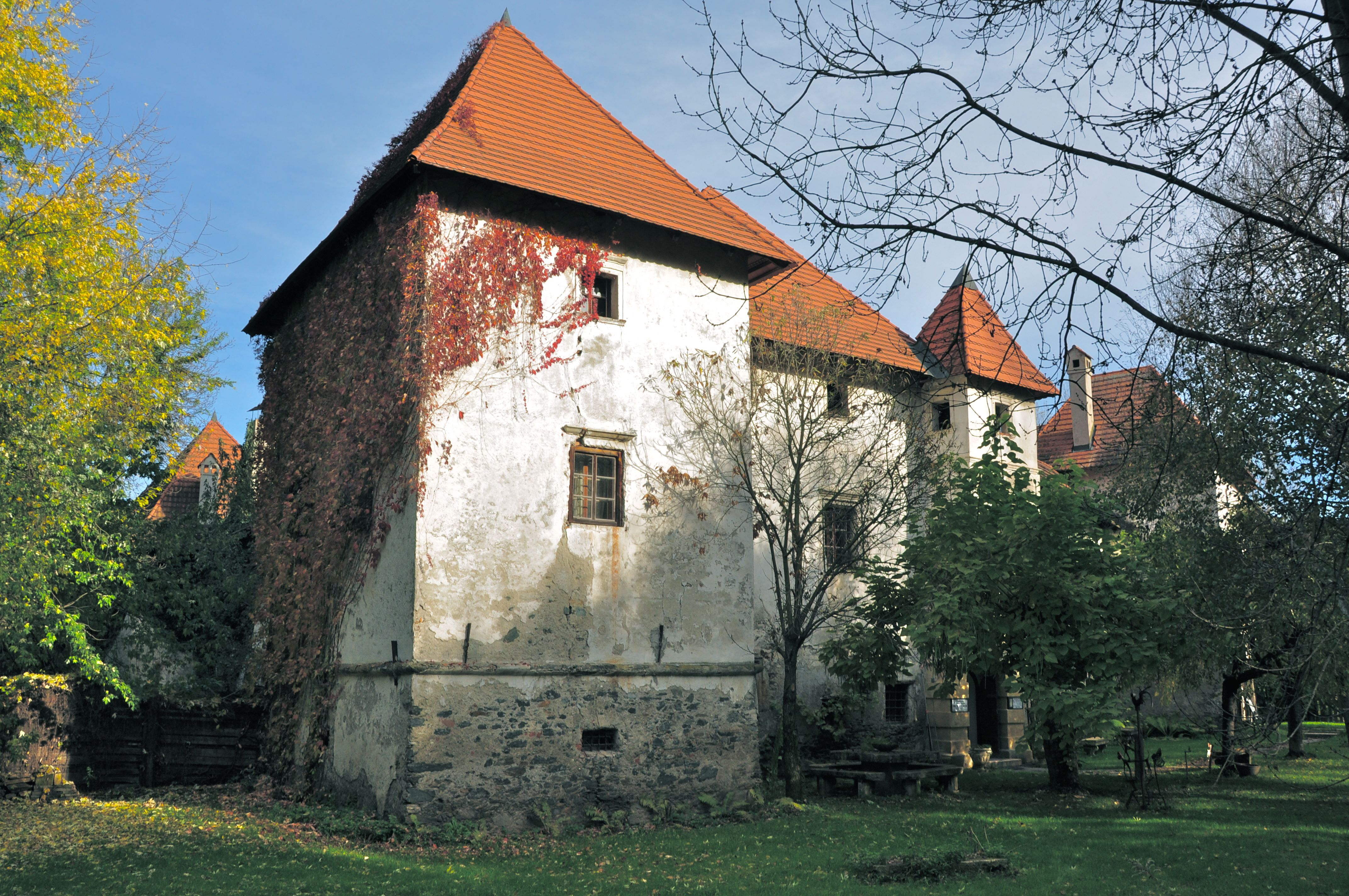 Castle Weyer on the Wayer Strasse in Sankt Veit an der Glan, municipality Sankt Veit an der Glan, district St. Veit an der Glan, Carinthia, Austria, EU